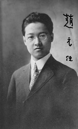 Photograph of Yuen Ren Chao ca. 1916.